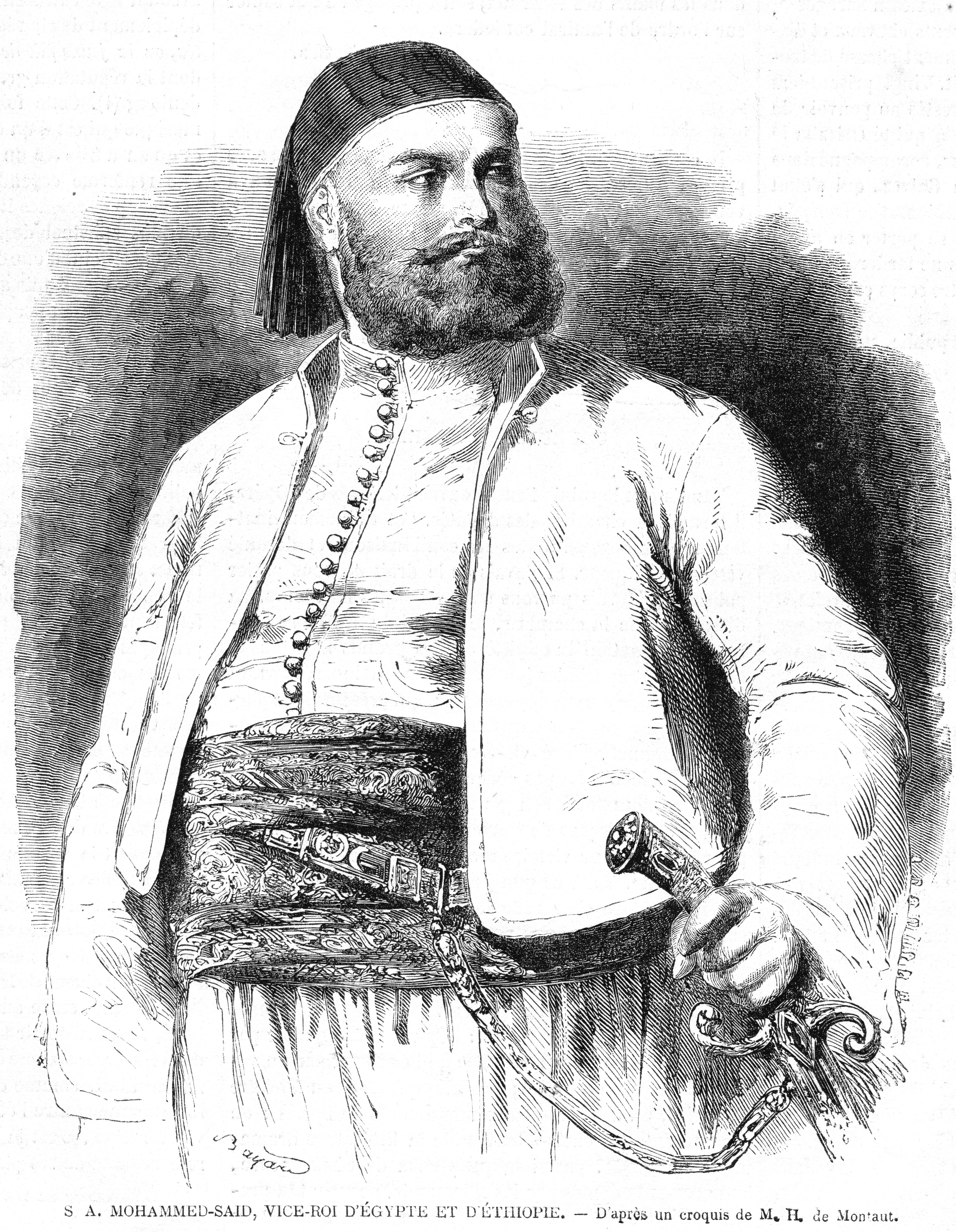 L'Illustration 1862 gravure Mohamed Saïd Pacha, Vice-roi d'Égypte et de l'Éthiopie